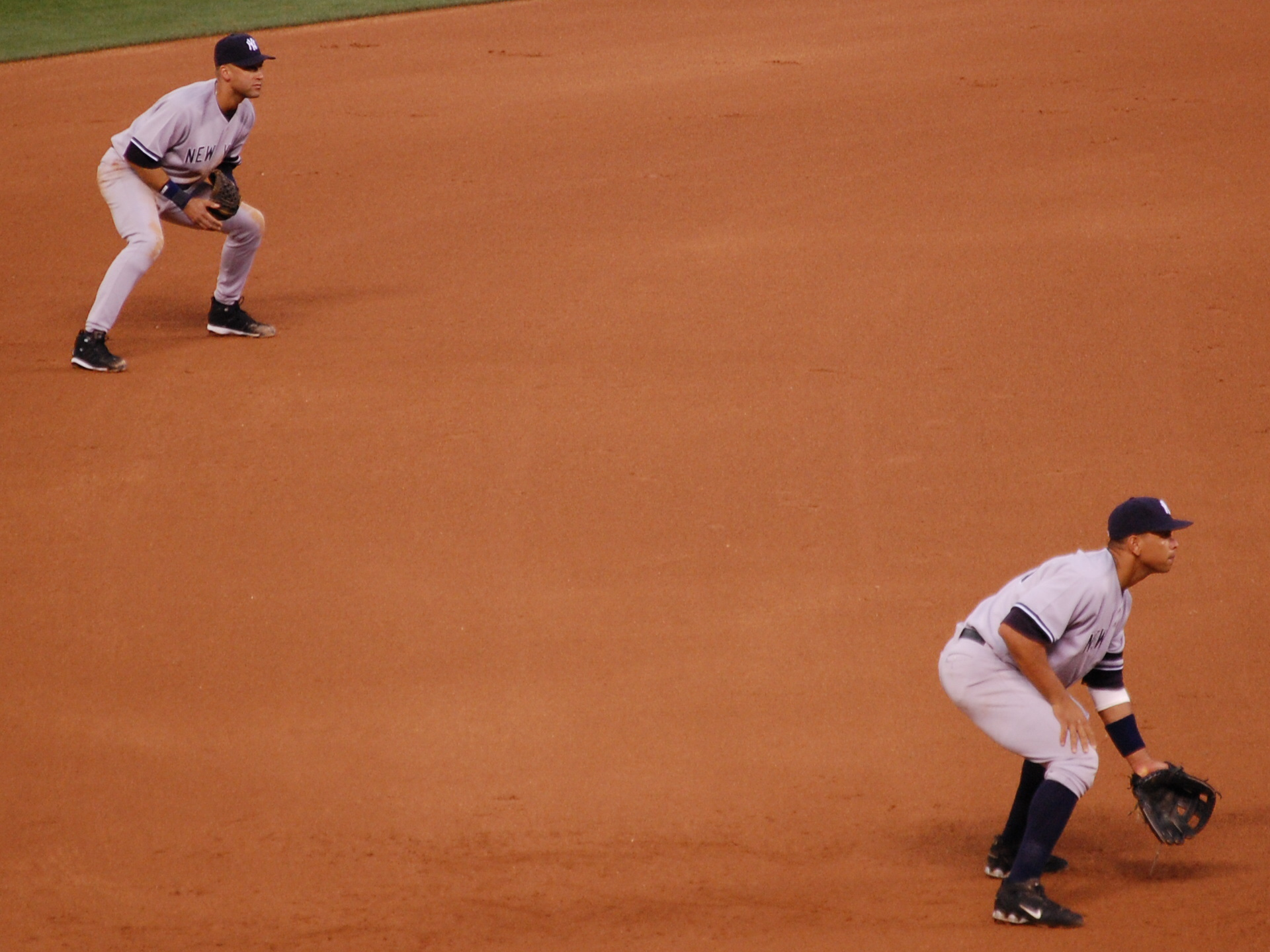 own work, gfdl 06:05, 20 June 2007 . . Onetwo1 . . 1920×1440 (701 KB)